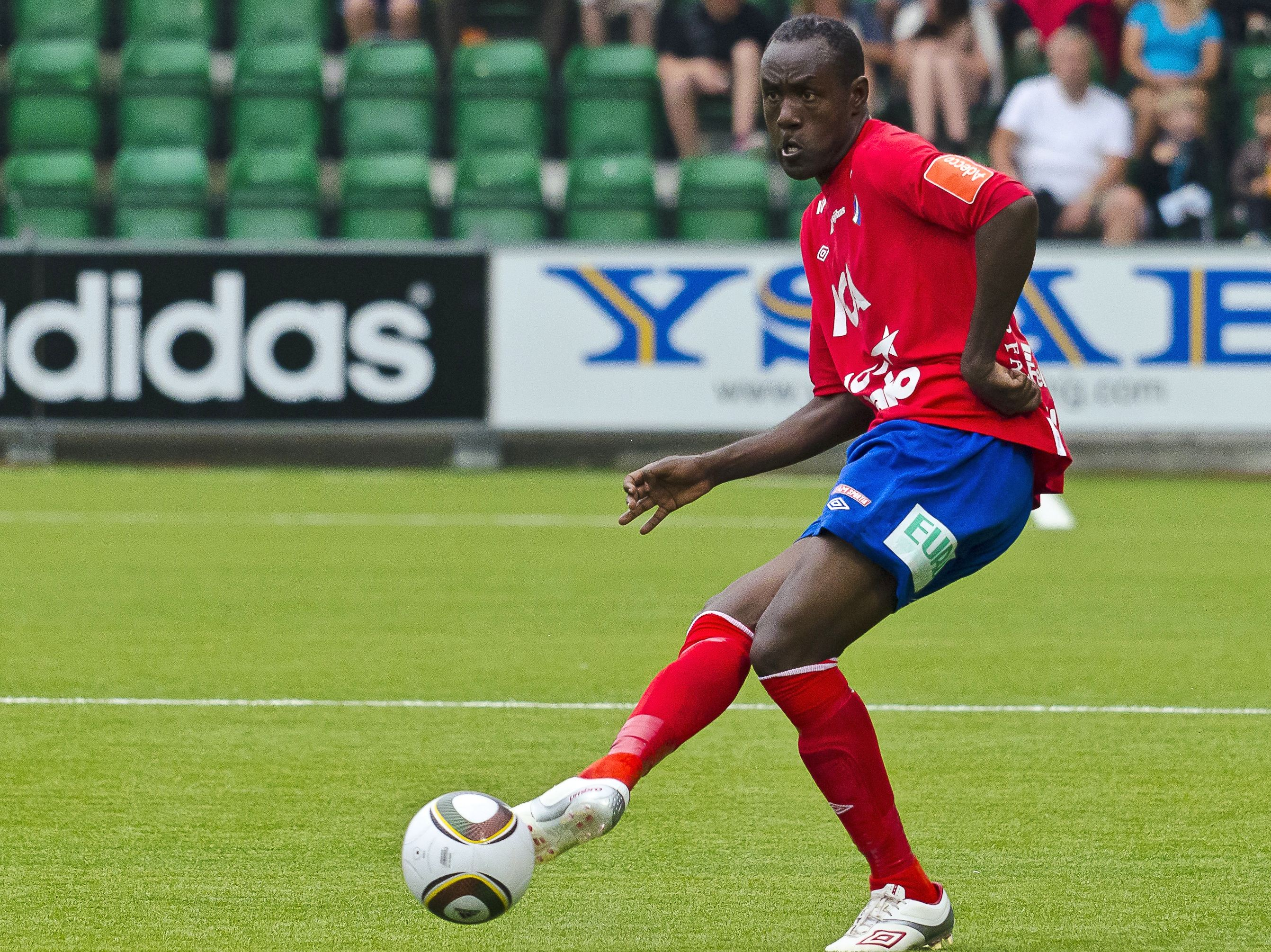 Rwandian footballer Olivier Karekezi playing för Östers IF in Superettan 2011.